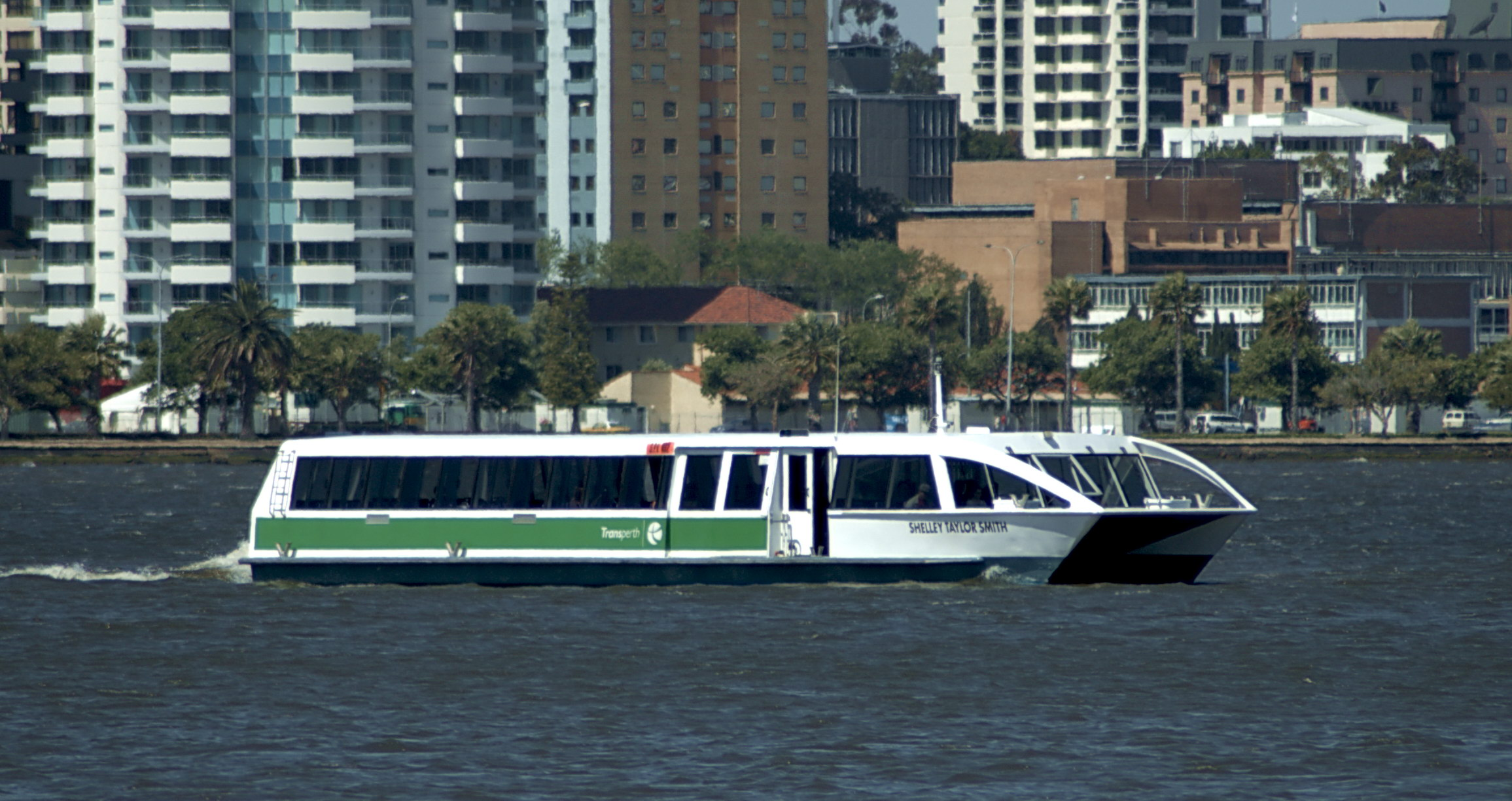 Transperth ferry Shelley Taylor-Smith on the Swan River.